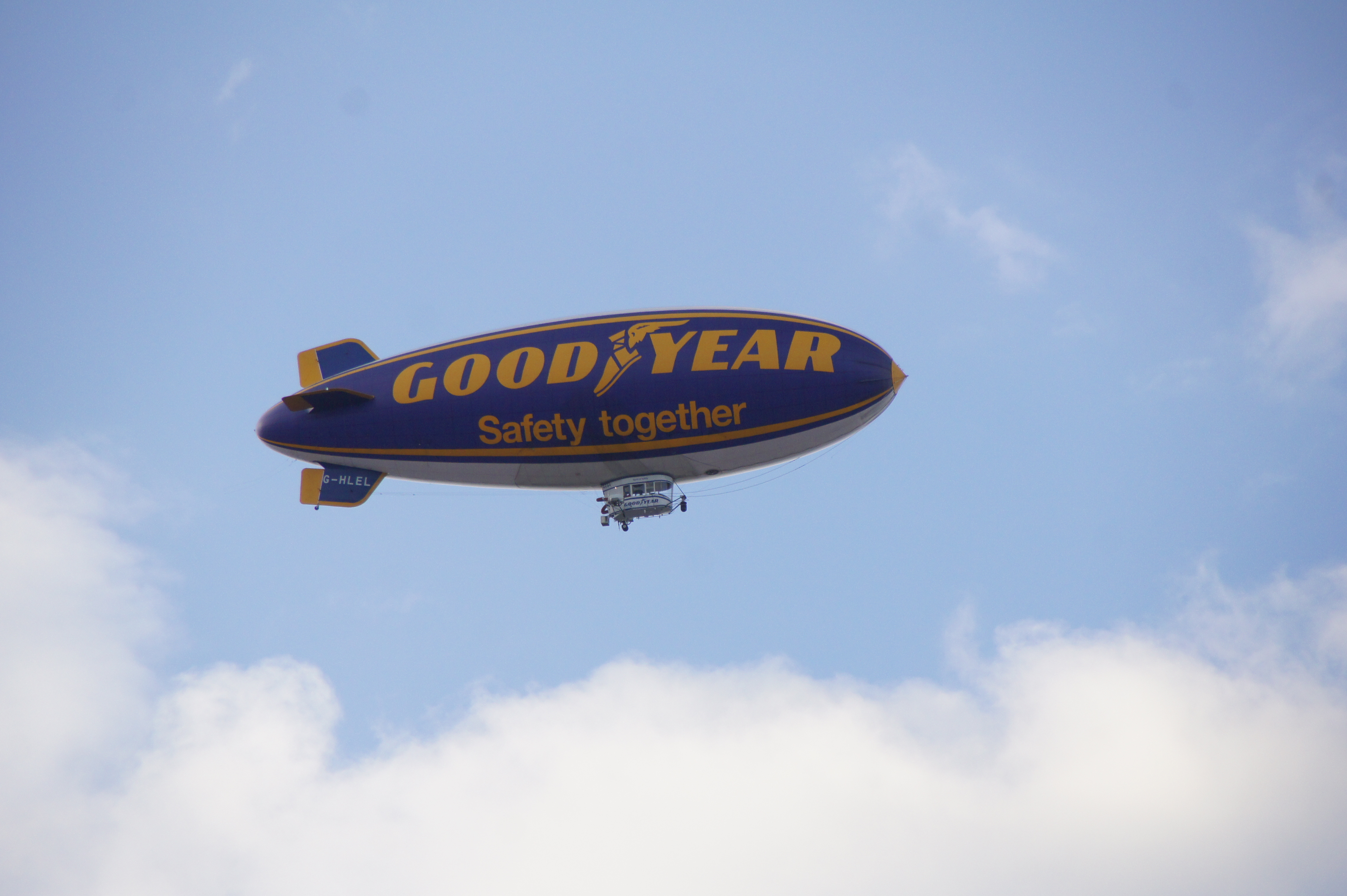 Goodyear over Manchester on 30 April 2012 before the 163rd Manchester Derby